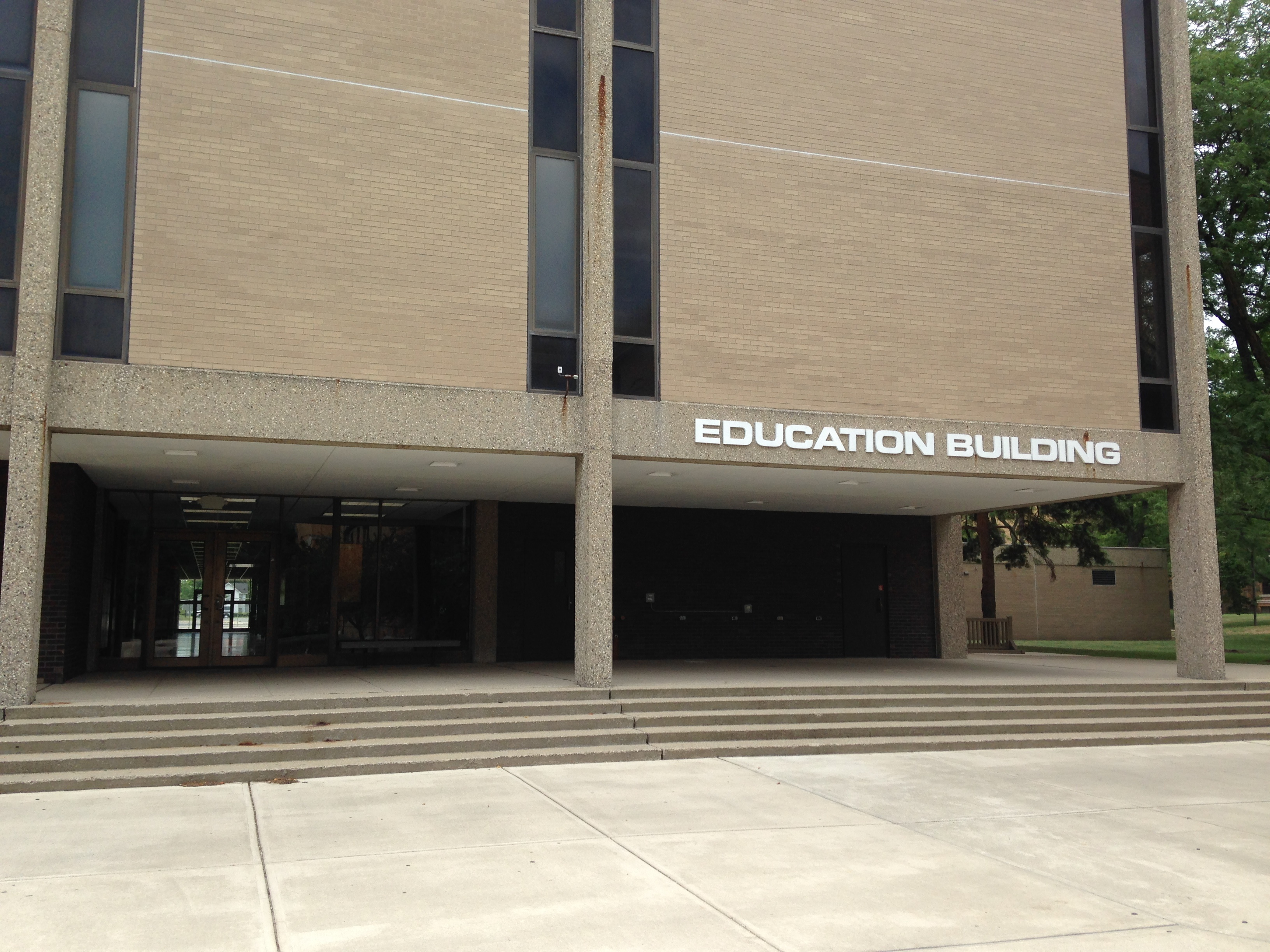 Education Building at BGSU.